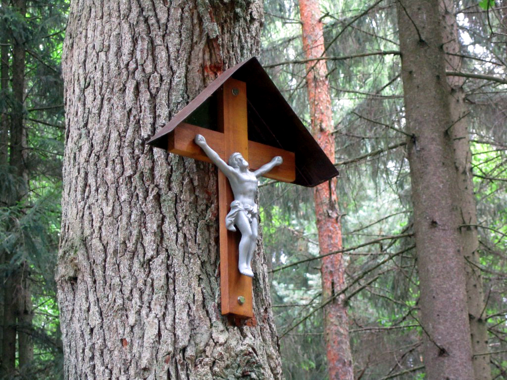 Wooden cross in Bolevec (Pilsen), restored in 2014